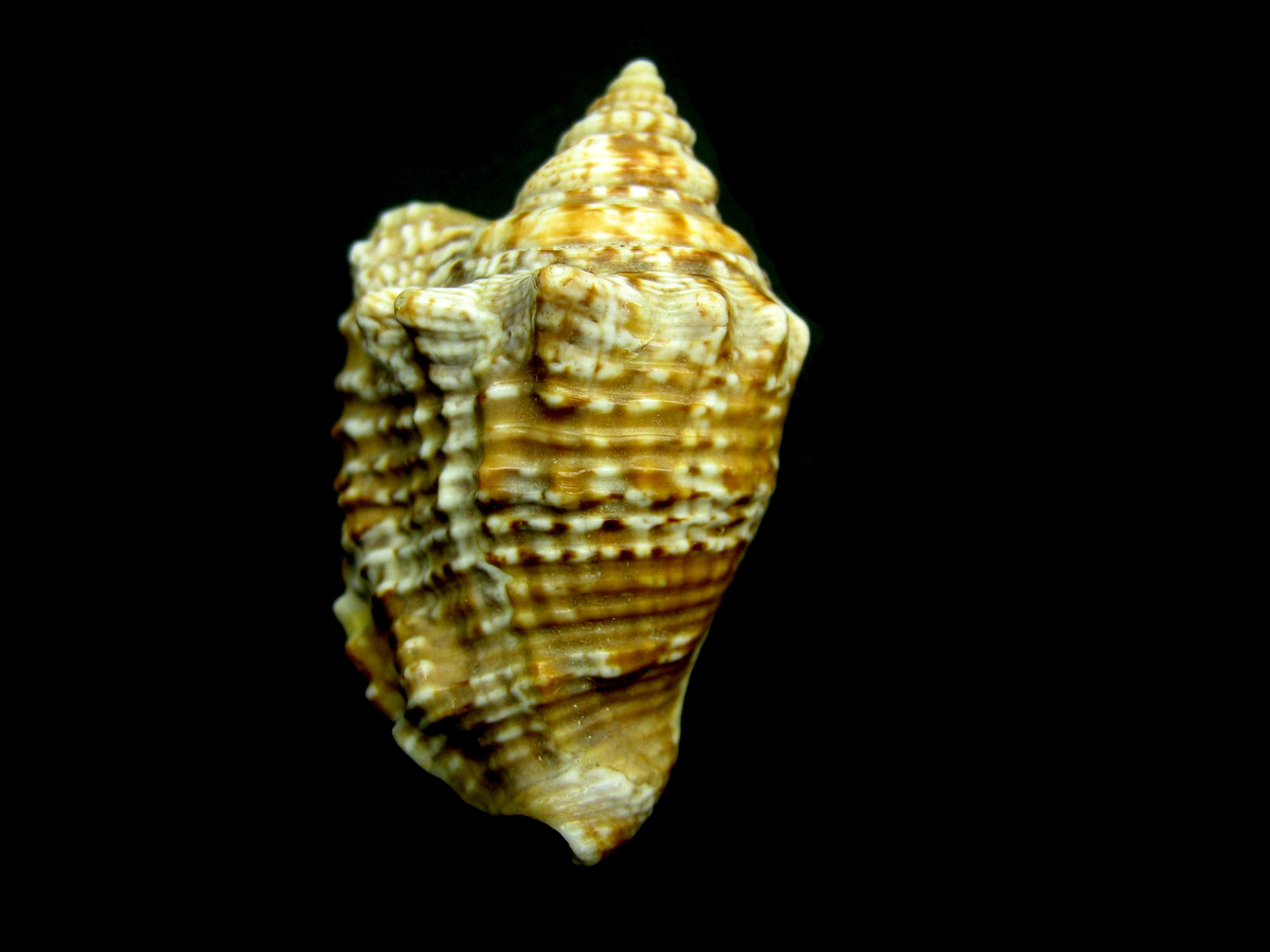 Macro of an Hawkwing Conch (Lobatus raninus - synonym : Strombus raninus).